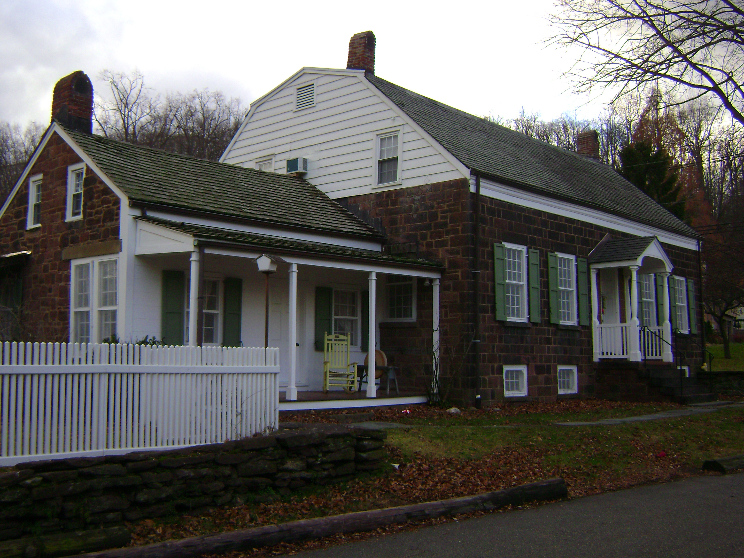 The John and Anna Vreeland House, a National and State Historic Place located in Clifton, New Jersey. The house was built in 1817.